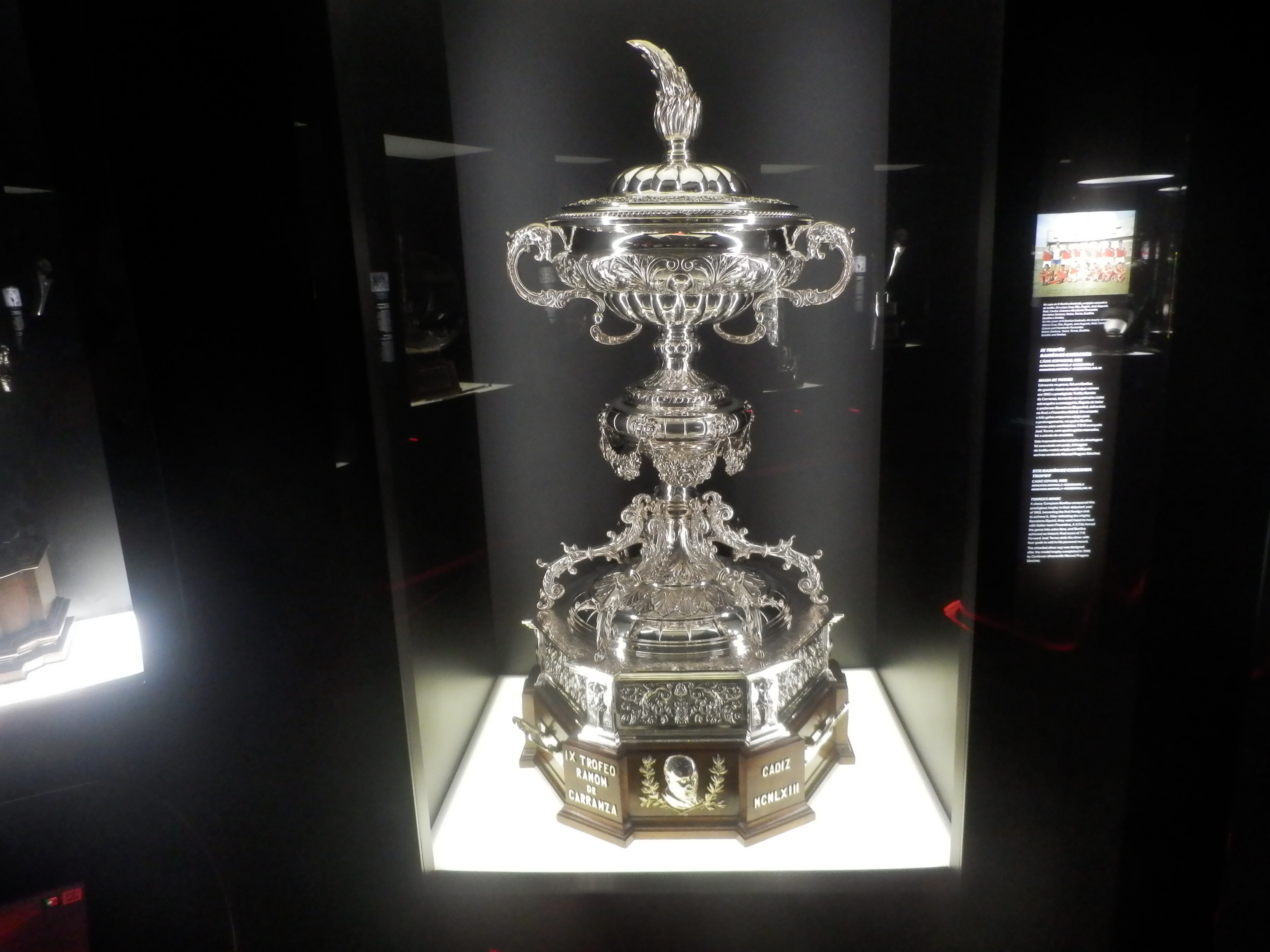 Trophy won in 1971